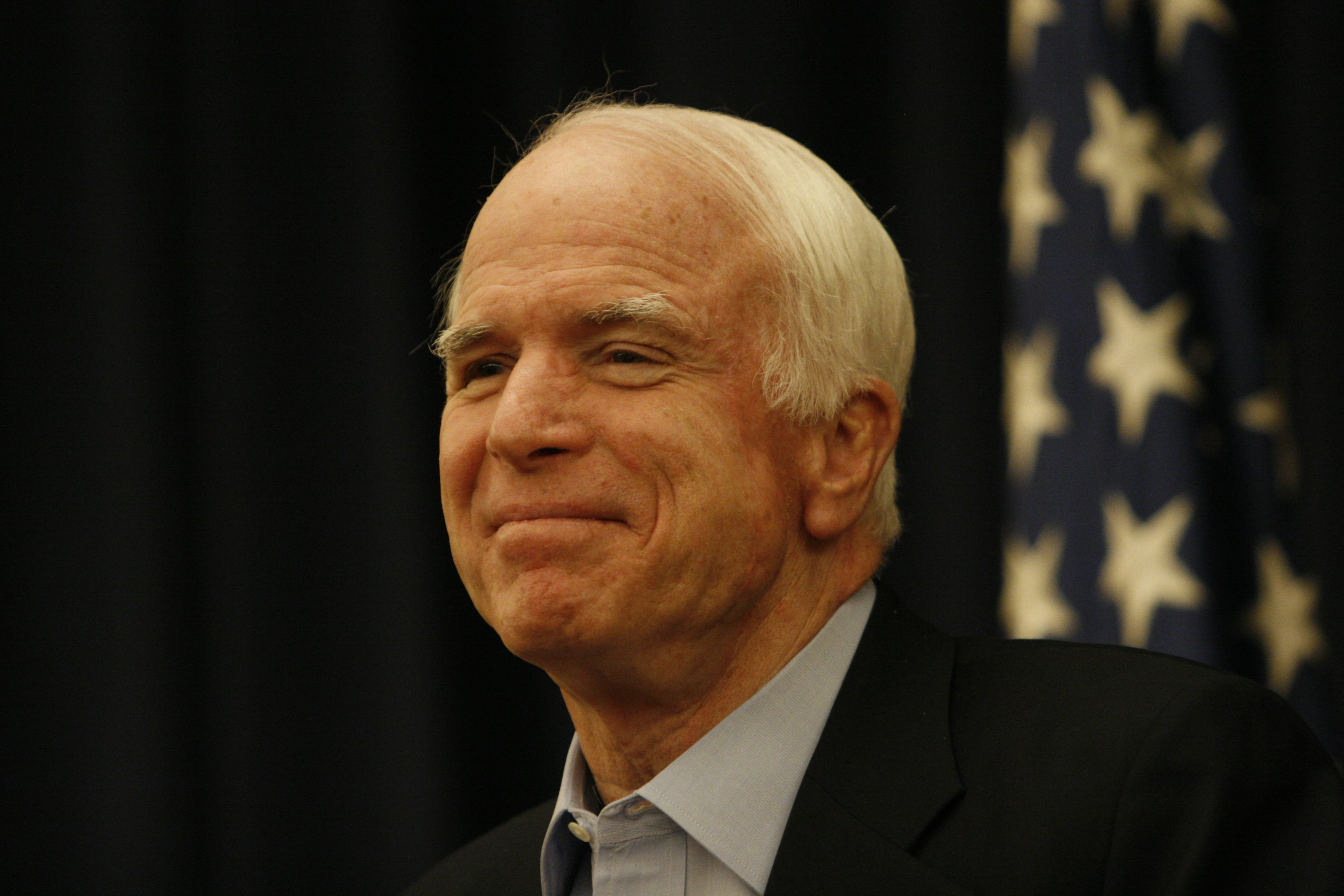 Arizona Sen. John McCain speaks to members of the media at a press conference Dec. 17, 2009, during his visit to the Marine Corps Air Station in Yuma, Ariz., to speak to Marine officials on border-related issues affecting military training in the area. McCain expressed the need to increase border facilities to move people, goods and services more rapidly across the United States-Mexico border, because Arizona is dependant on the cross-border trade. He also addressed his concern for the high level of violence in Mexico near the border. (Photo by Gunnery Sgt. Bill Lisbon)